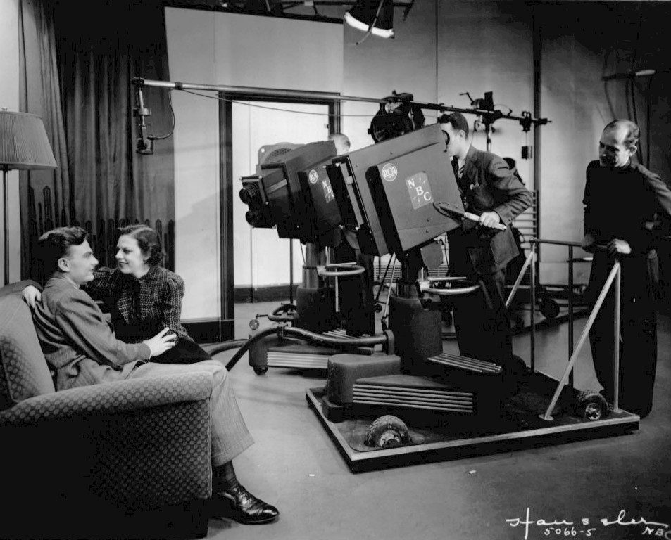 Photo of Grace Brandt and Eddie Albert in an early NBC television program The Honeymooners-Grace and Eddie Show. The program ran on radio from 1933 to 1936. Movable iconoscope cameras are being used to transmit the program, along with overhead ceiling lighting. The boom mike makes an appearance here-it was not frequently needed in radio, but became a staple of television audio.